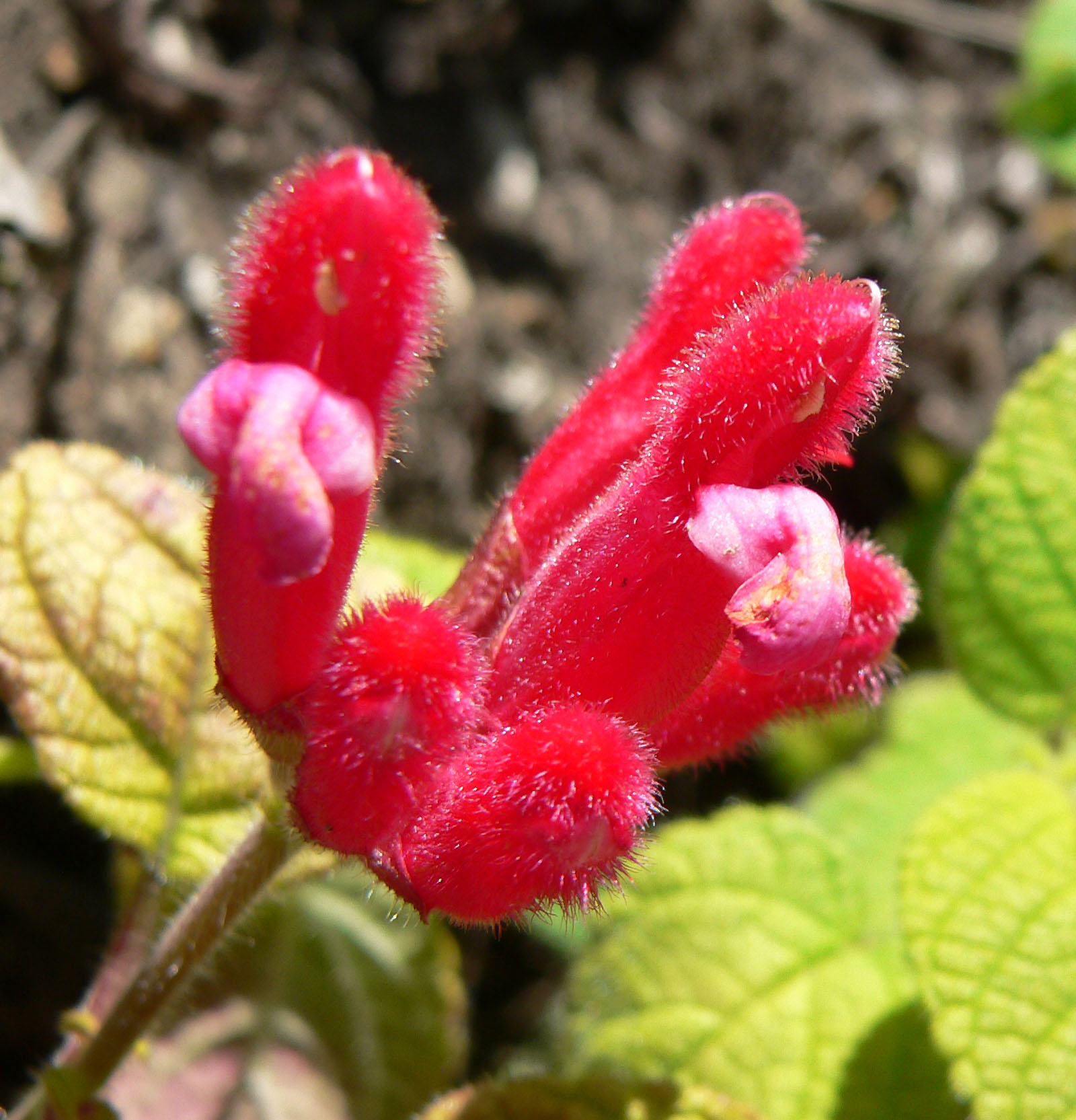 Salvia pulchella at the University of California Botanical Garden, Berkeley, California